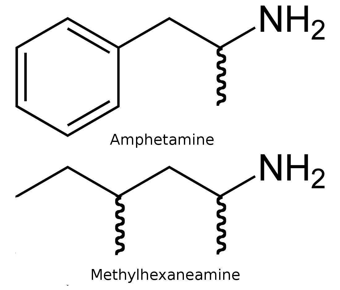 Comparison of amphetamine and methylhexaneamine. This image copies File:Amphetamine-2D-skeletal.png - however, it is my understanding that chemical formulas of this type cannot be copyrighted. Therefore I regard this image (like its source) as public domain.